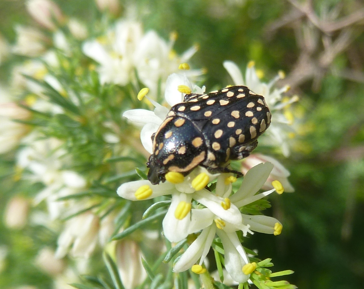 Dotted fruit chafer on Wild asparagus, at Schanskop, Pretoria. The pronotum lacks the red border of C. marginalis